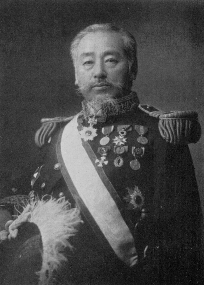 Baron Ryūichi Kuki.